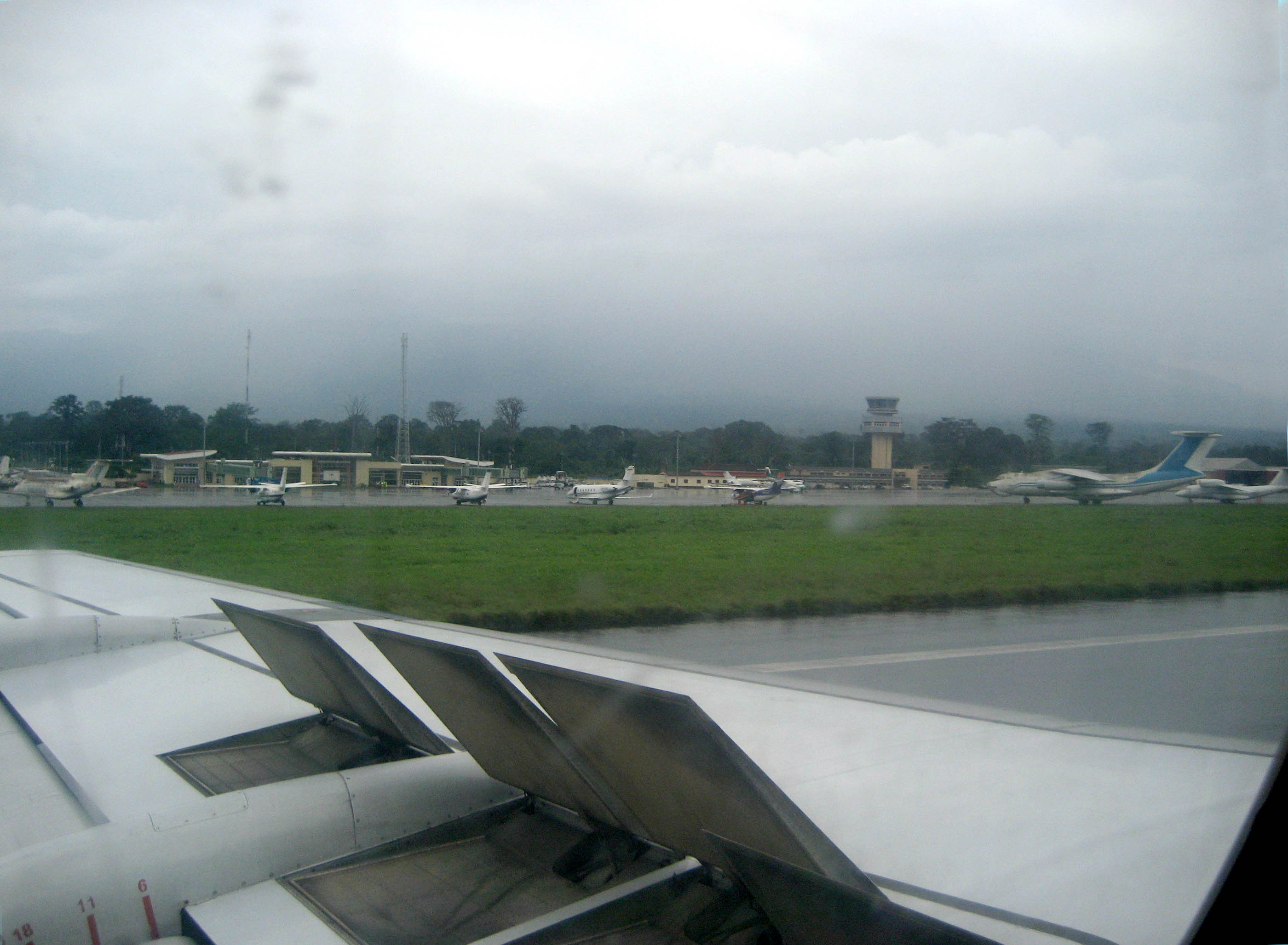 Equatorial Guinea Malabo Airport July 2010